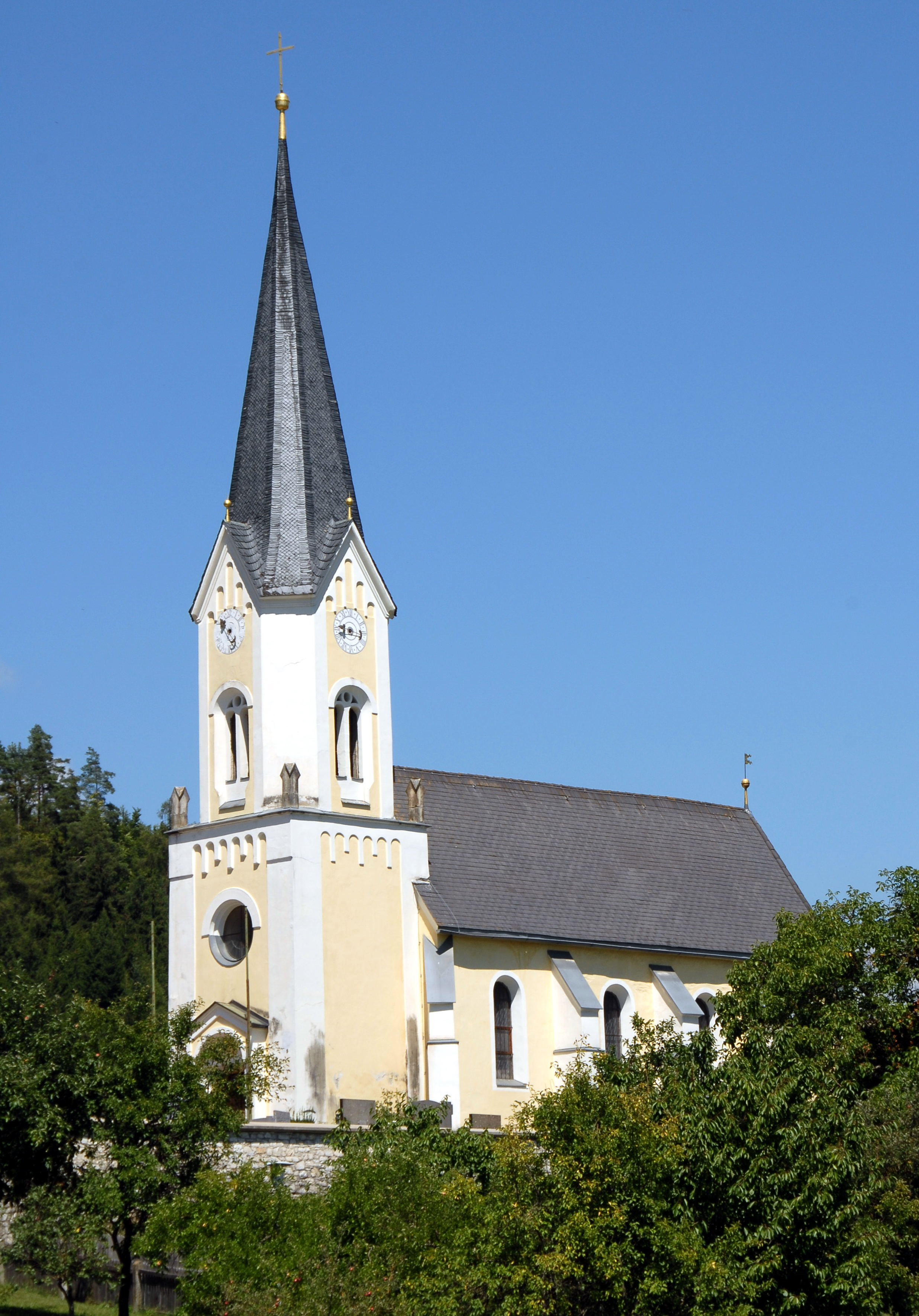 Parish church Saints Philip and James on Kirchenweg #39 in Sankt Filippen, market town Brückl, district Sankt Veit an der Glan, Carinthia, Austria, EU